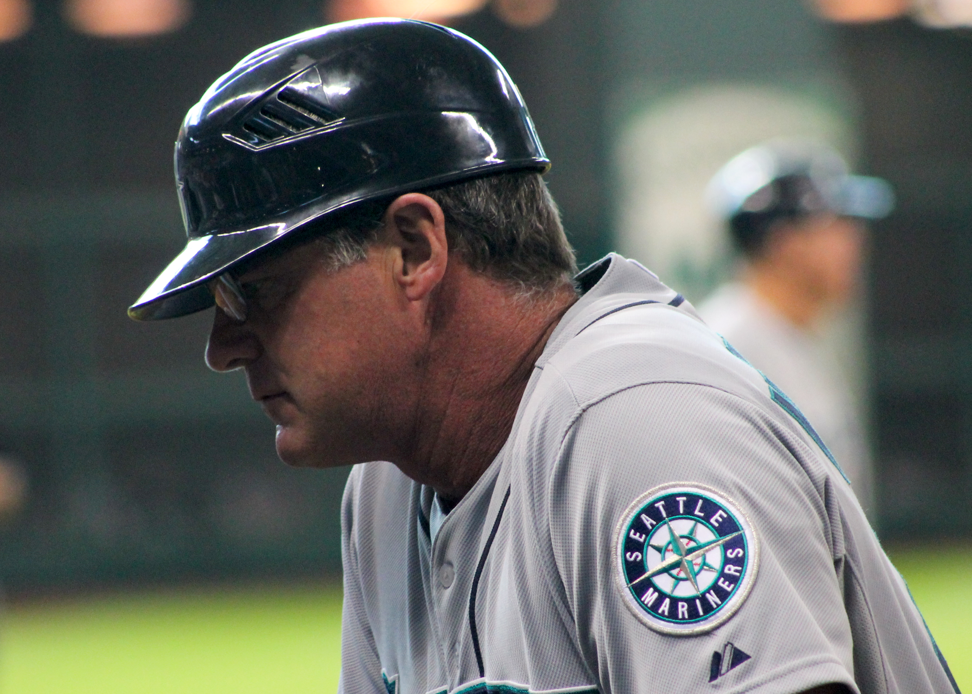 Major League Baseball coach Andy Van Slyke at Minute Maid Park in July 2014.